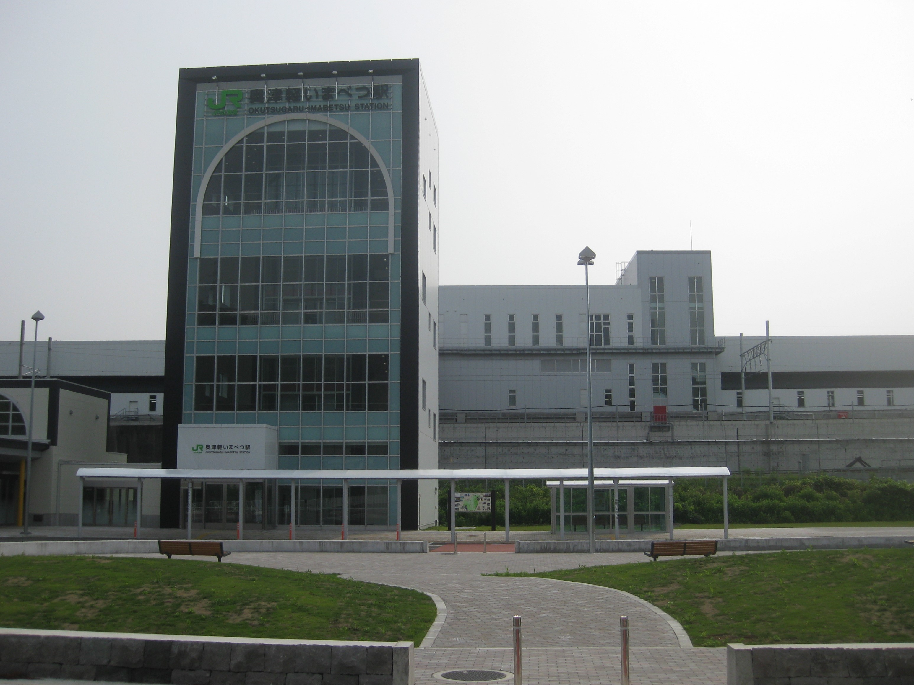 Okutsugaru-Imabetsu Station on the Hokkaido Shinkansen in Aomori Prefecture